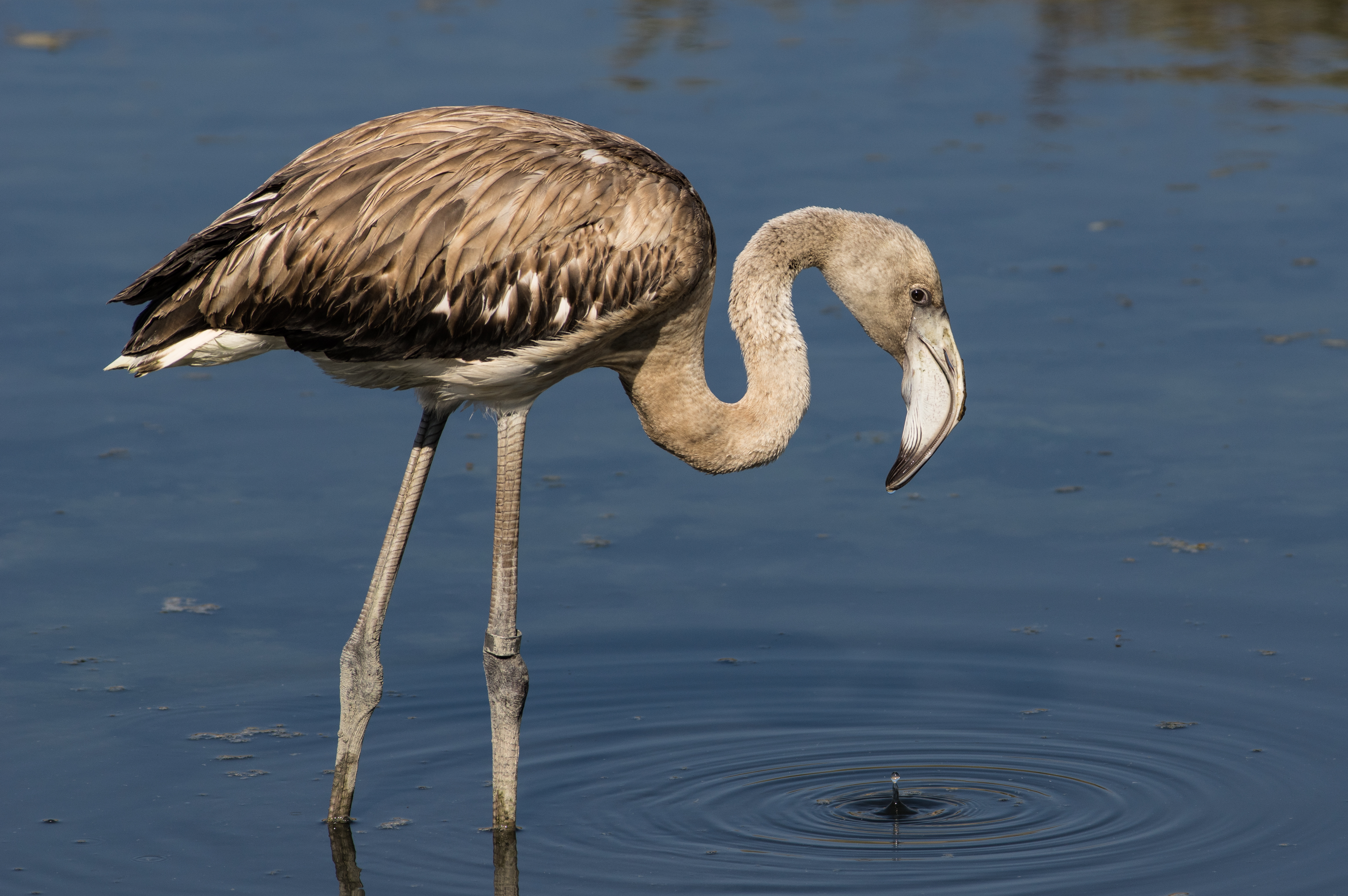 Greater flamingo (Phoenicopterus roseus) (sub-adult)